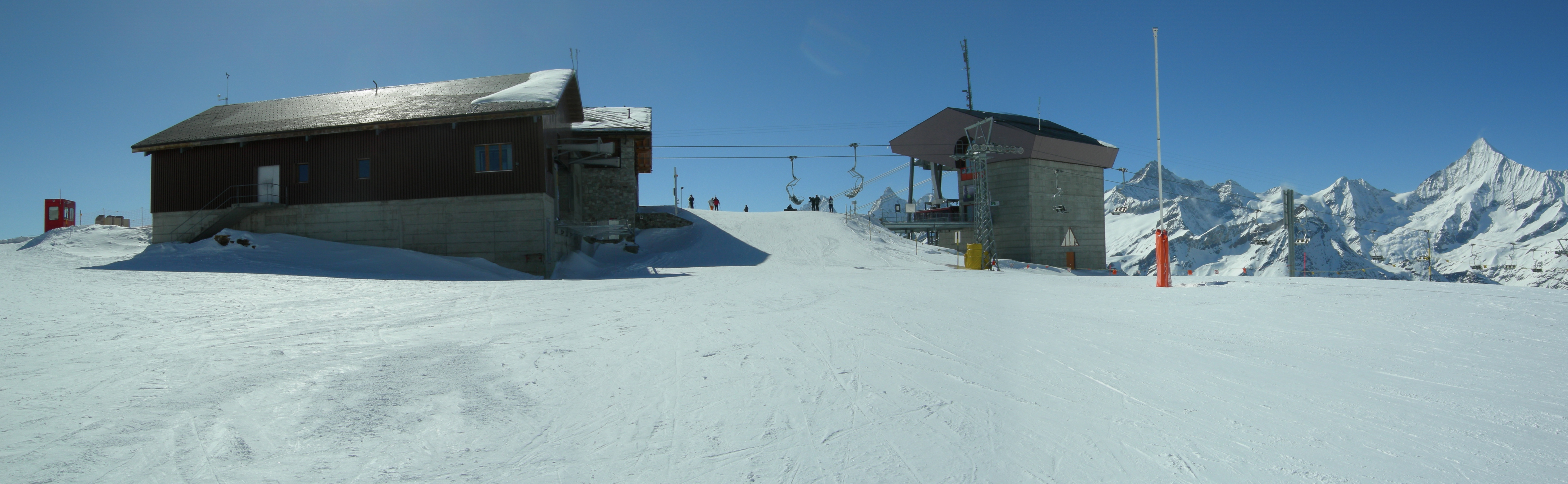 Picture of the Unterrothnorn installations in Zermatt